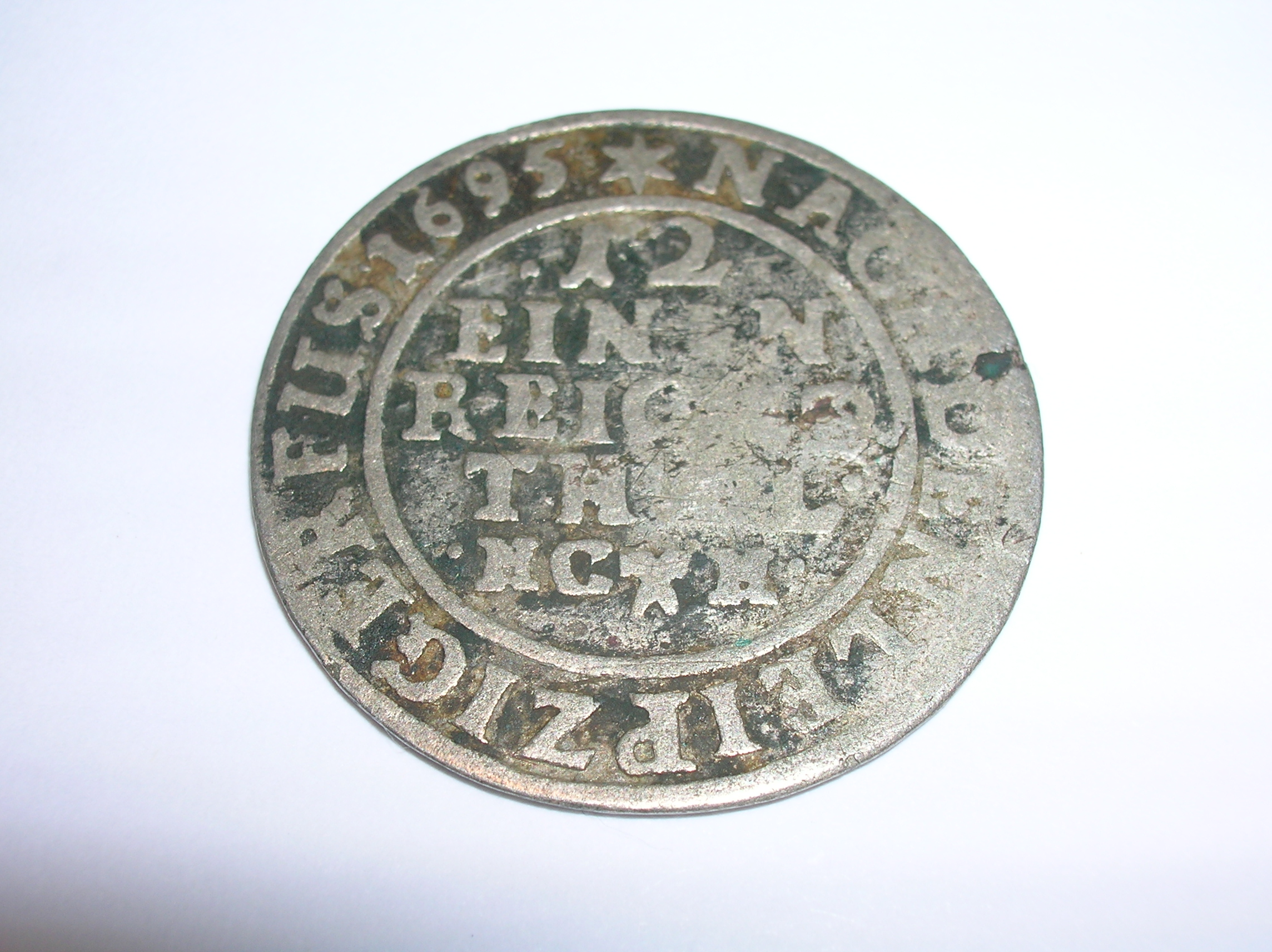 Reverse of 1/12 Thaler of 1695 - Rudolph Augustus Prince of Brunswick-Wolfenbüttel, Germany - Welter 2102